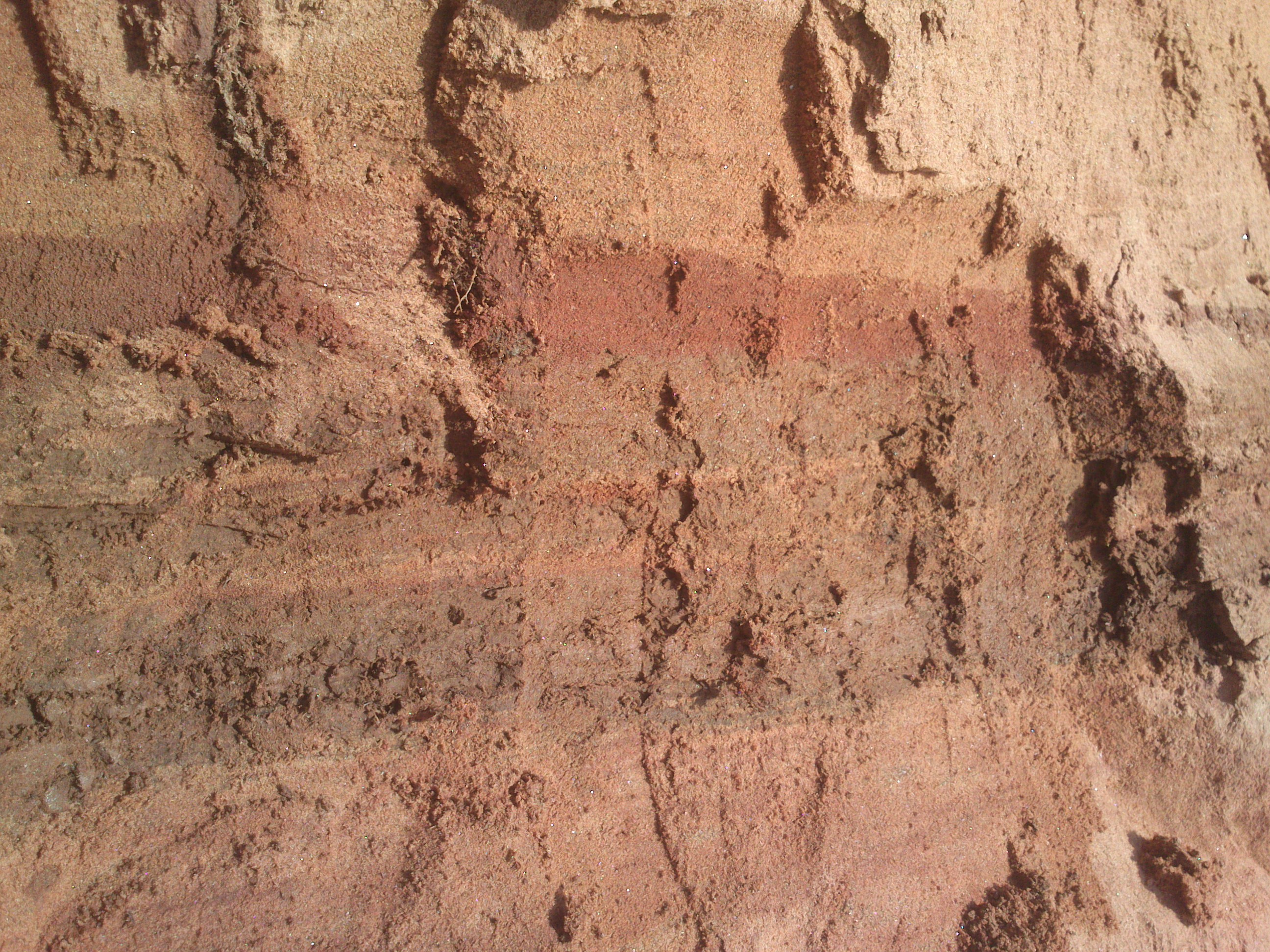 Sandstone outcrop close-up